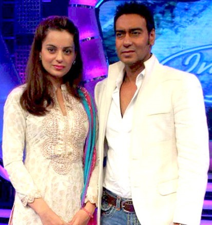 Ajay and Kangna promote Once Upon A Time In Mumbaai